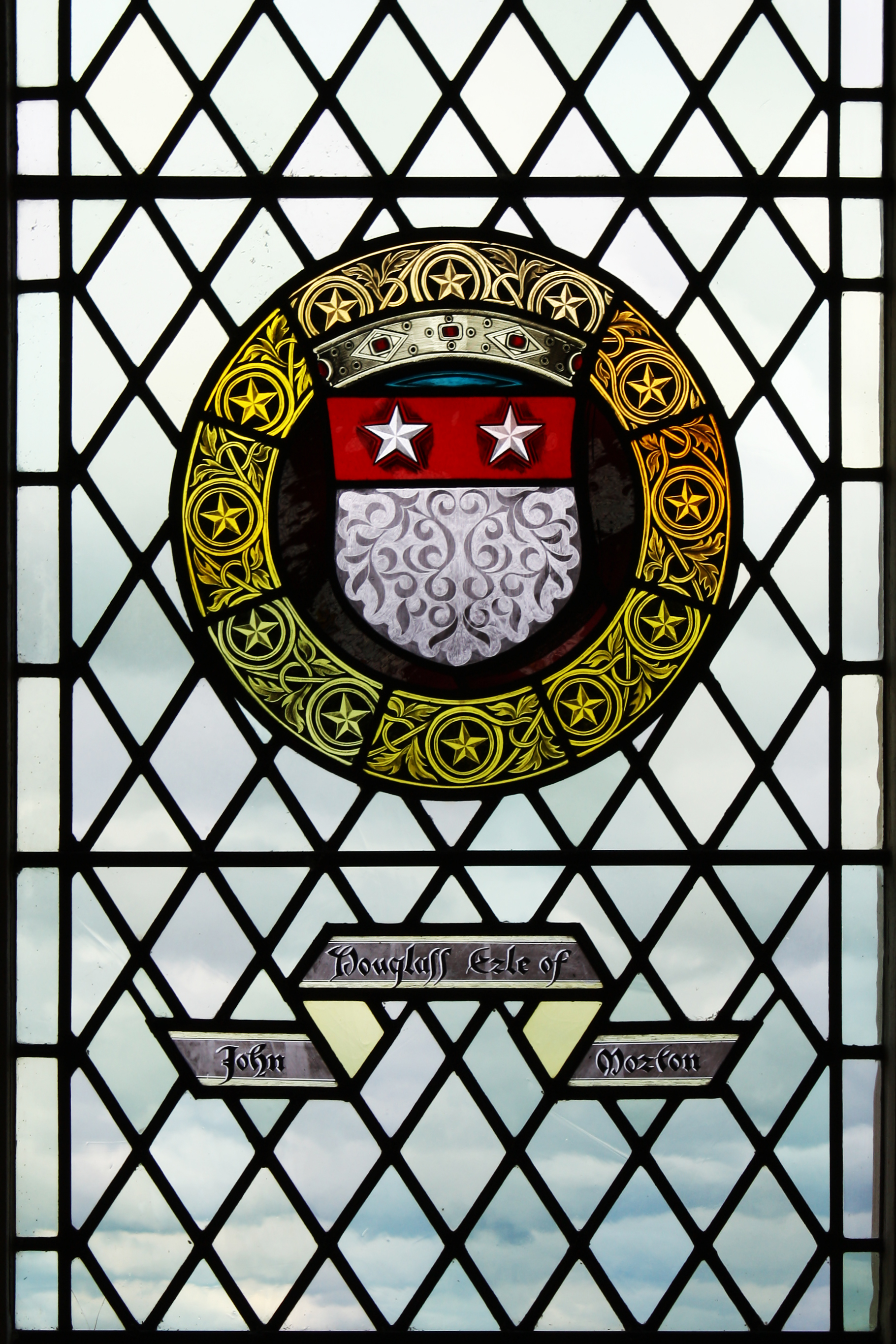 The coat of arms of John Douglas, Earl of Morton (either the 2nd or the 18th), in the Great Hall of Stirling castle (window made in the 19th century). Blason: Argent on a chief gules two stars of the first.